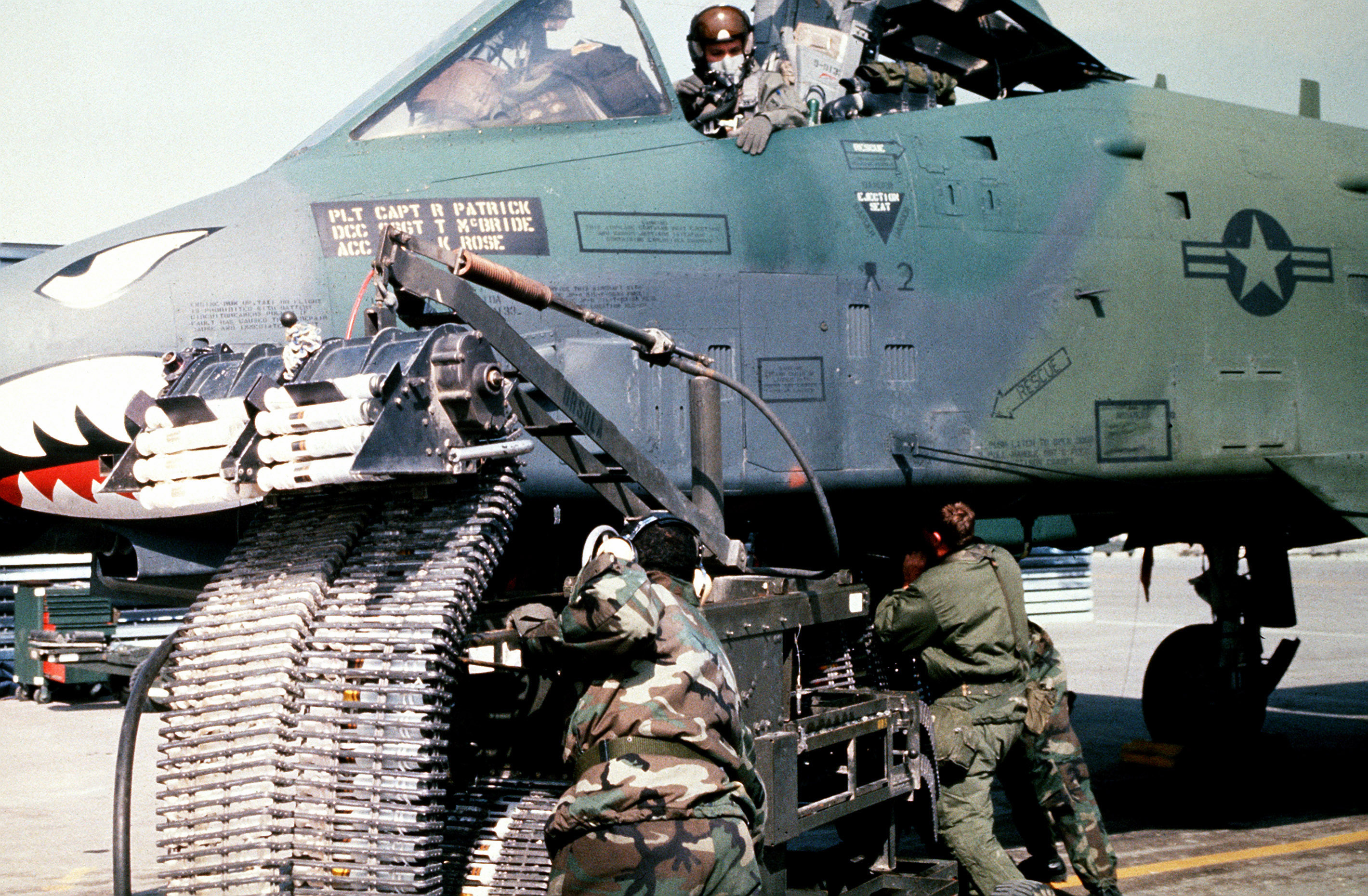 Munitions specialists from the 23rd Tactical Fighter Wing, England Air Force Base, La., load 30mm rounds of ammunition into an A-10A Thunderbolt II attack aircraft for its GAU-8/A Avenger cannon prior to a sortie in support of Operation Desert Storm.